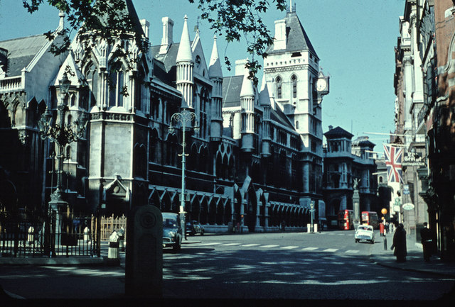 Royal Courts of Justice, 1959